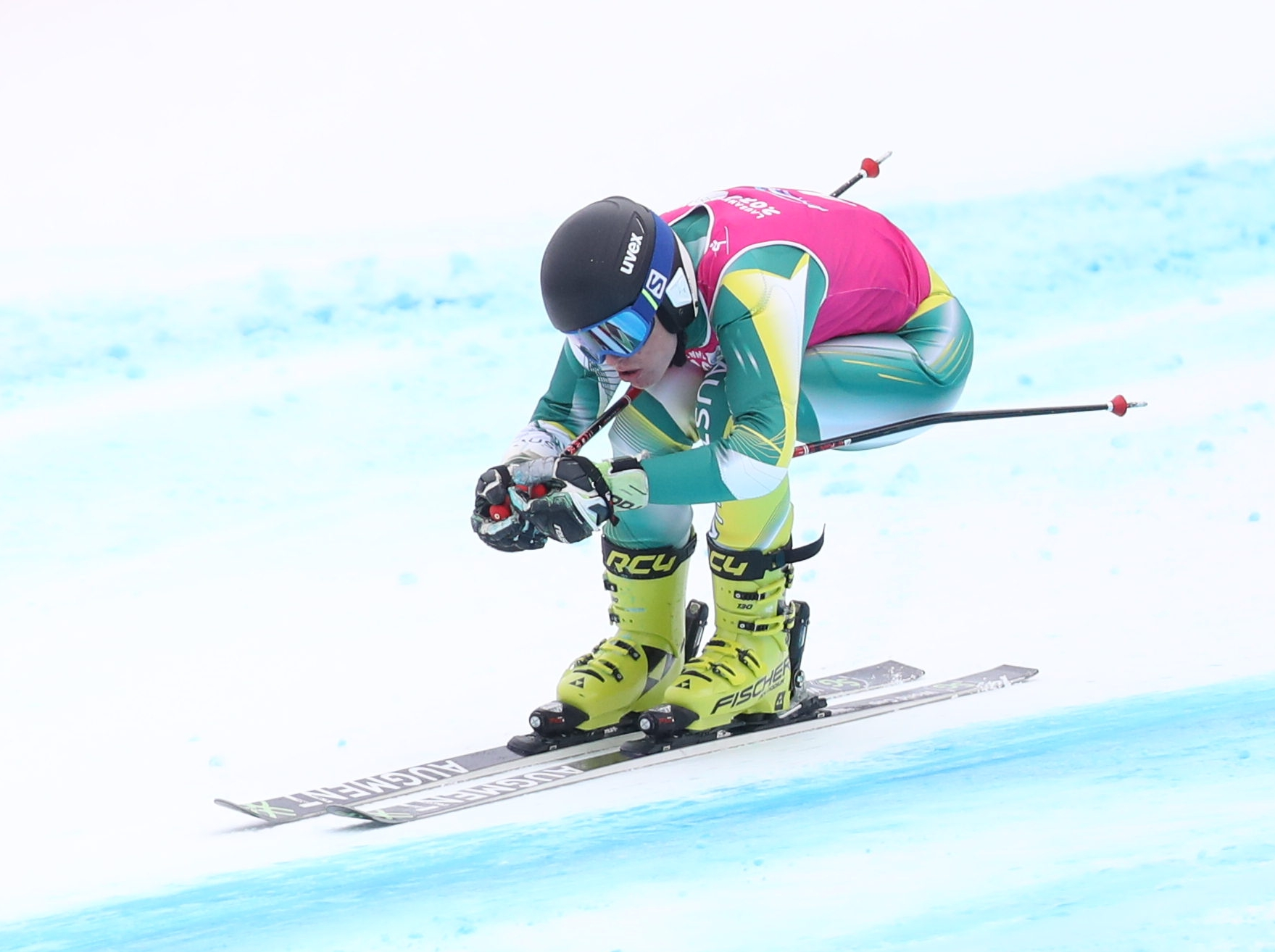 Men's Super G at the 2020 Winter Youth Olympics in Lausanne